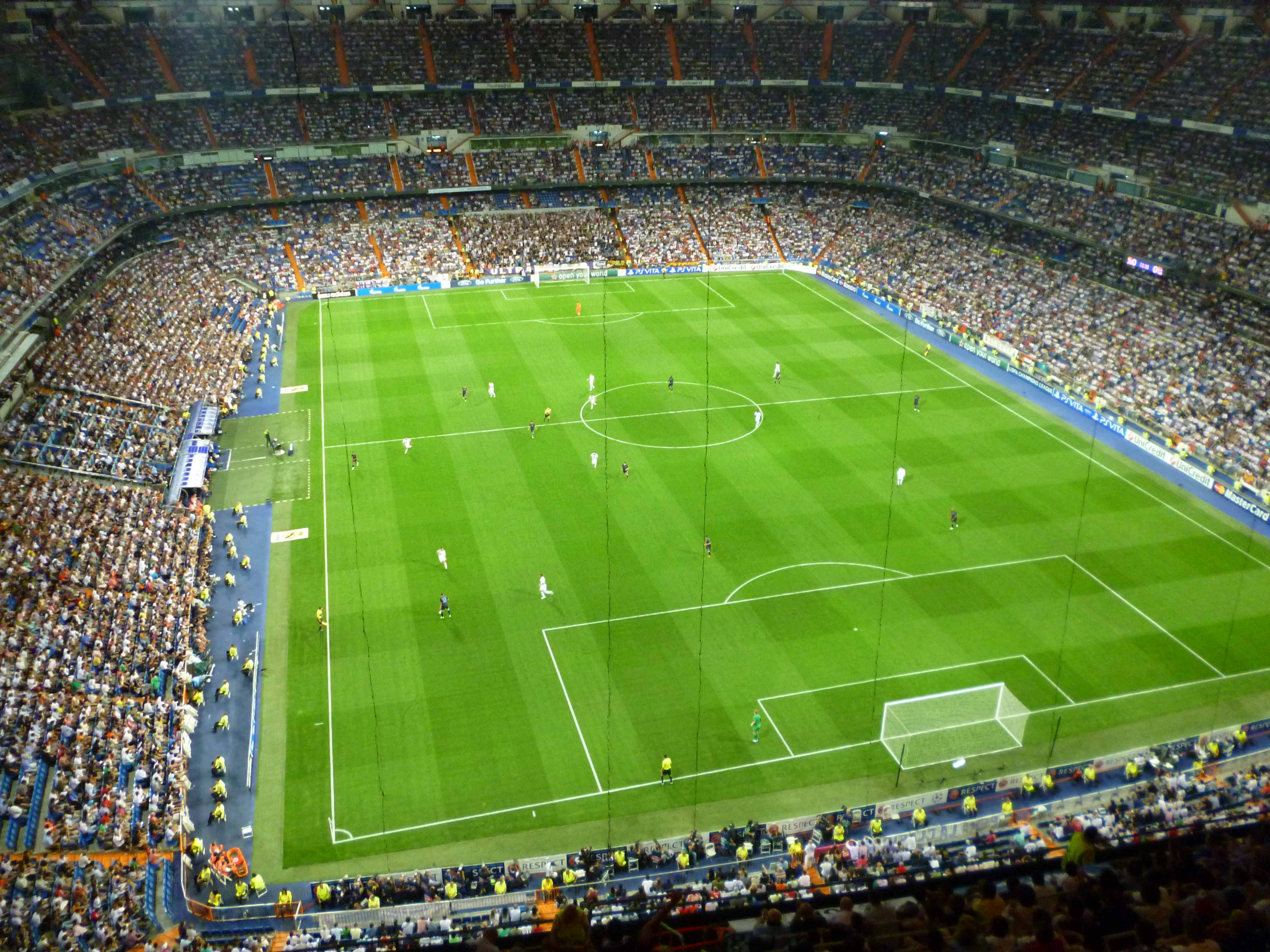 UEFA Champions League match between Real Madrid (white) and Manchester City (black) at the Estadio Santiago Bernabeu, Madrid.